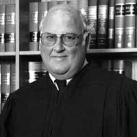 Unknown Author. Retrieved from: (a website of the United States).